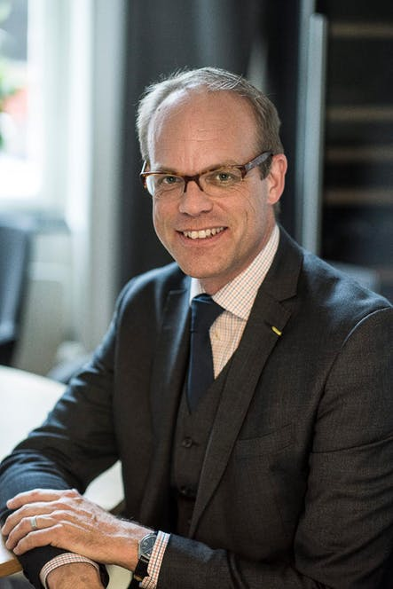 Jonas Arnell photographed in 2017 for C3 Konsult AB by Marie-Therese Karlberg.